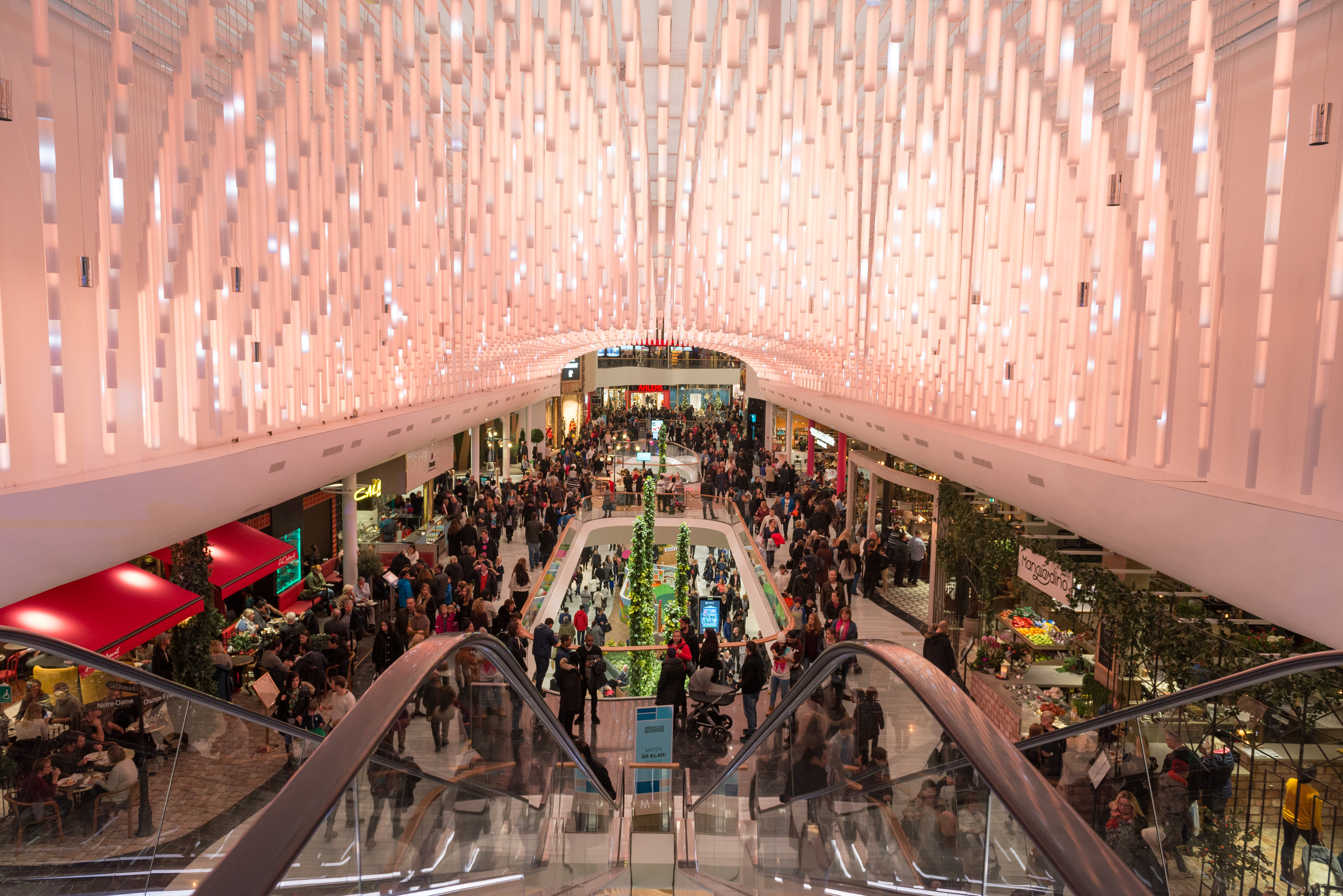 The "Mall of Scandinavia" shopping mall in November 2015. Arenastaden, Solna (Stockholm). Christmas trees are seen right (viewer's perspective) to the red "Åhlens" sign.